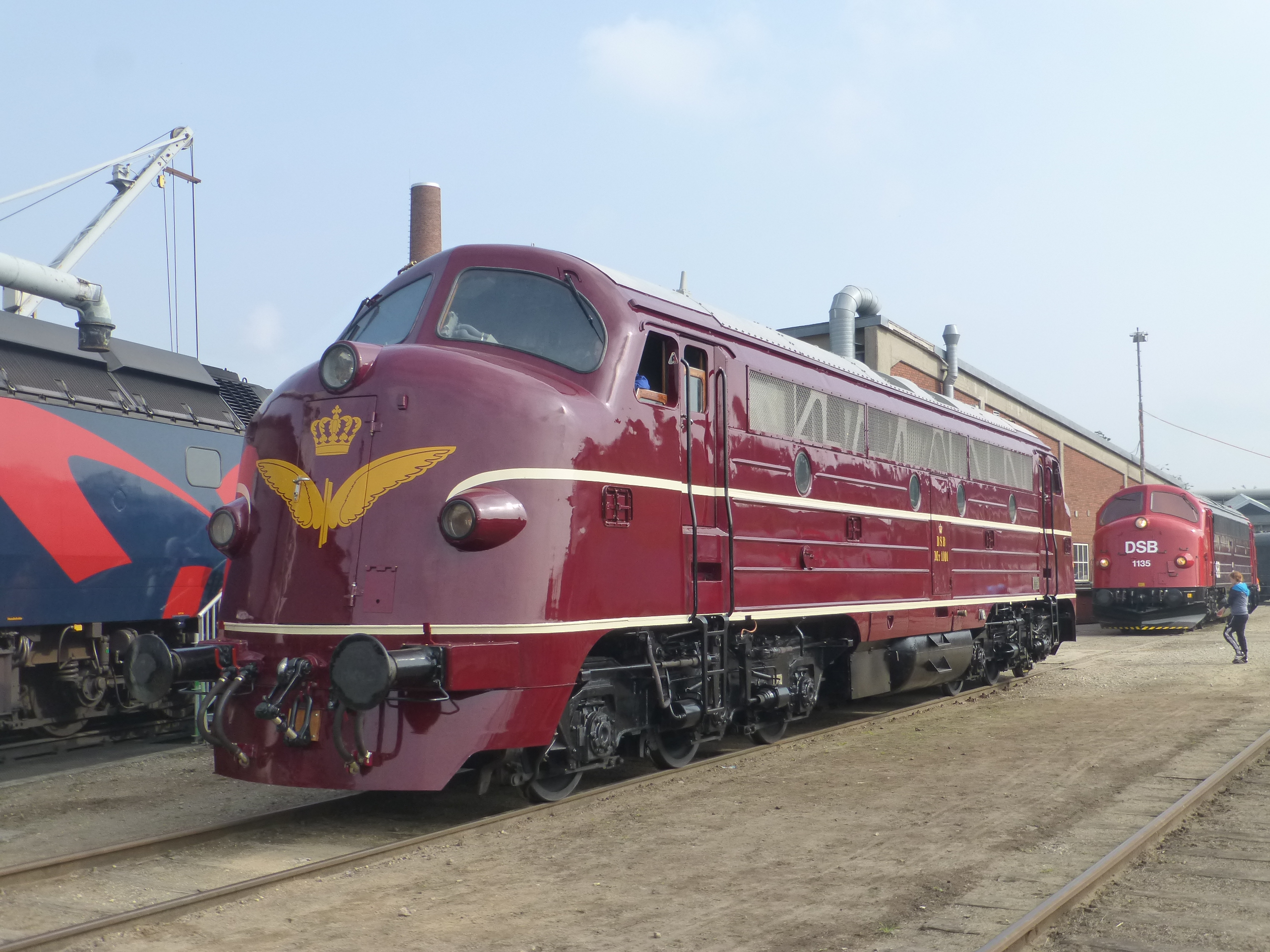 Celebration of 60 years of GM locomotives in Denmark at Danmarks Jernbanemuseum. The diesel locomotive DSB MY 1101 from 1954.